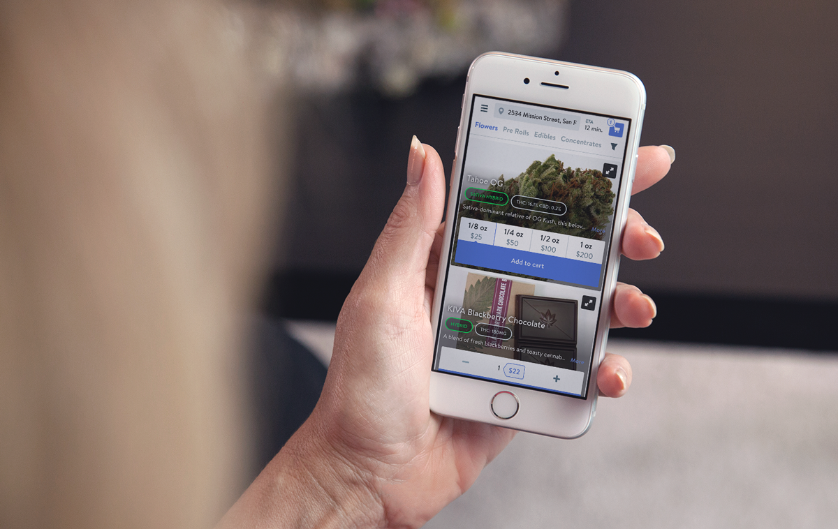 Eaze marijuana delivery on iPhone